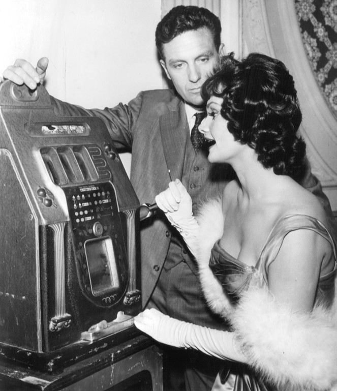 Publicity photo of Robert Stack as Eliot Ness and Gloria Talbott from the television program The Untouchables.